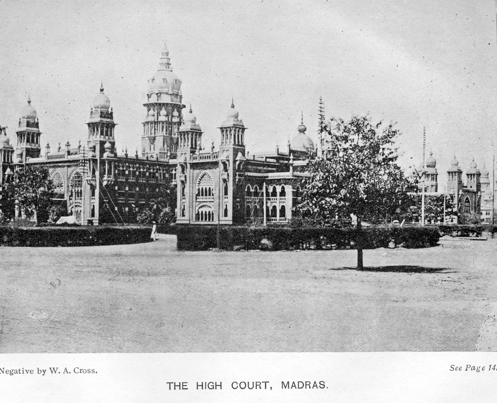 High Court Madras